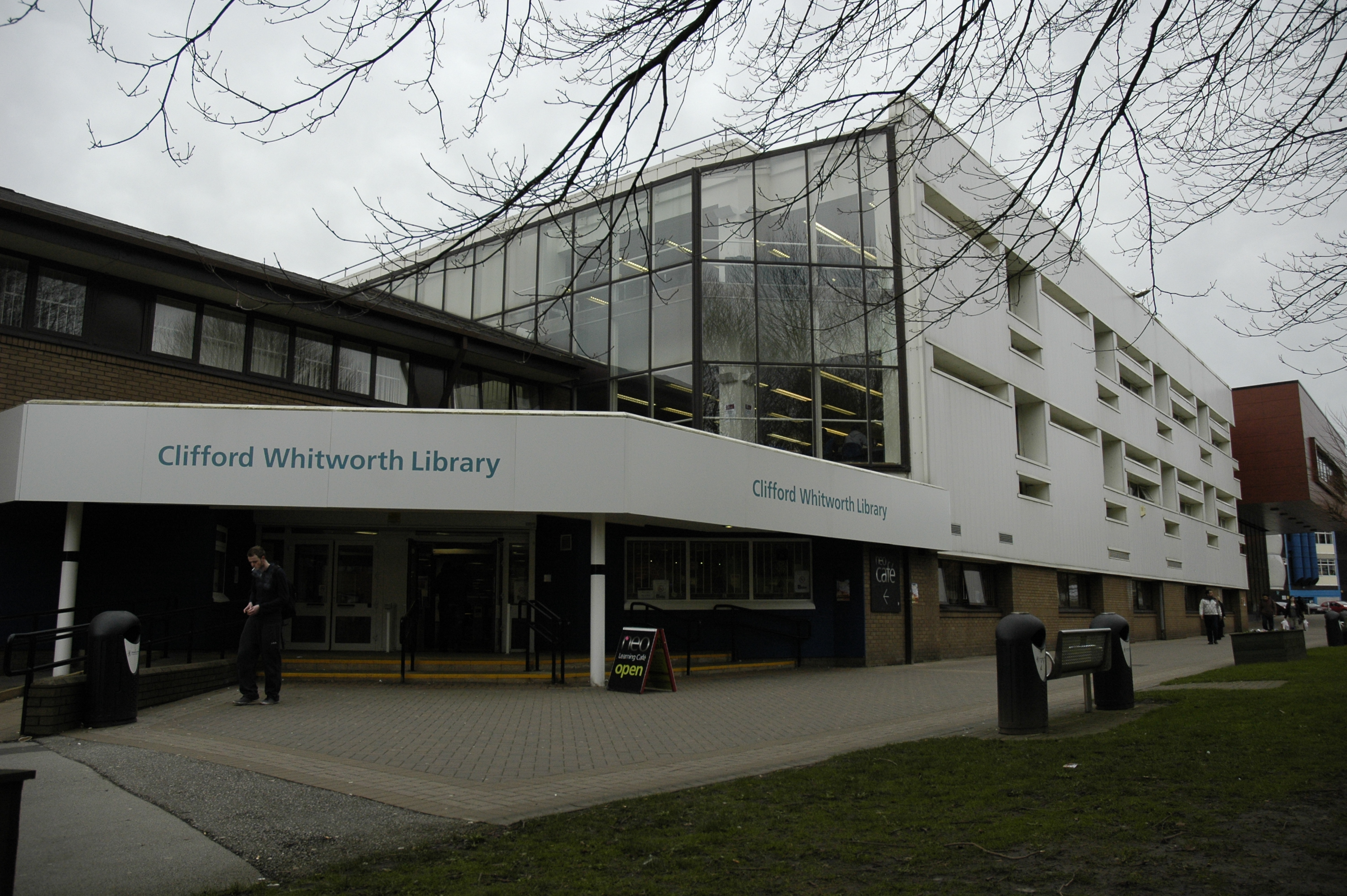 University of Salford : Logo.